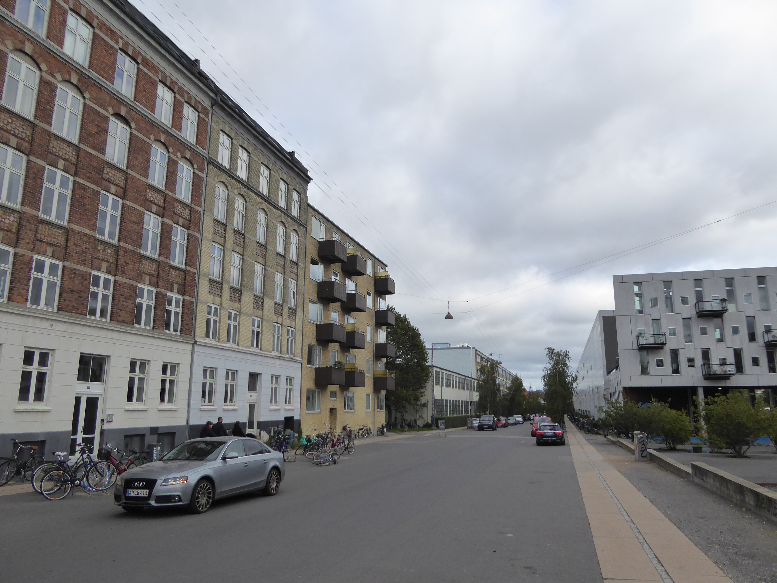 The street Rentemestervej in Nordvest in Copenhagen.